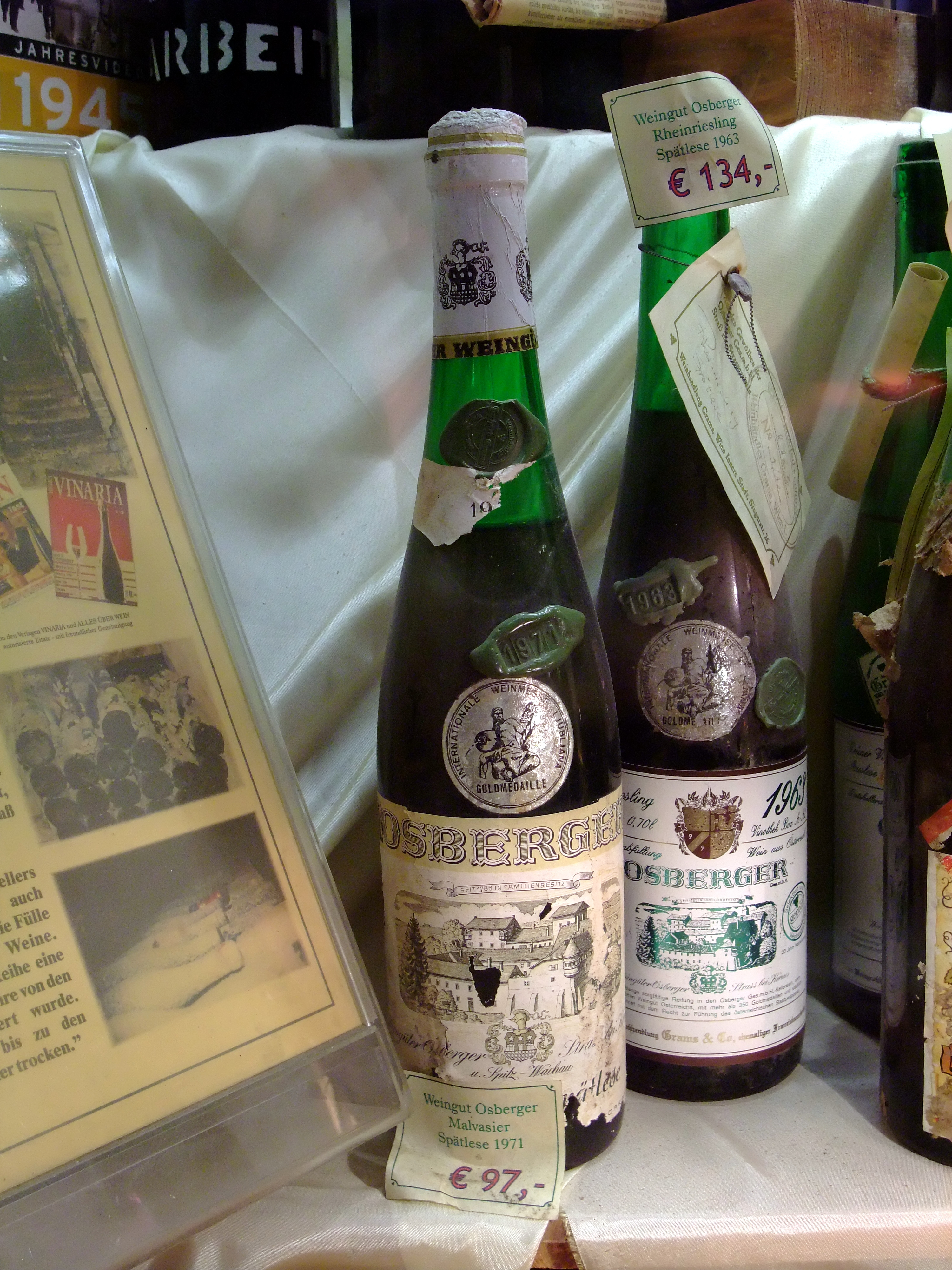 Old Austria spatlese Riesling from 1971 & 1983